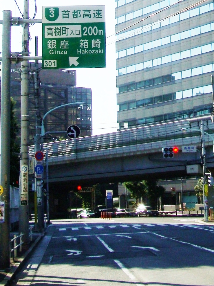 The Takagicho Crossing (Roppogni street, Kotto Dori street, and Shuto Kosoku 3) and a road sign showing Takagicho entrance to Shuto Kosoku